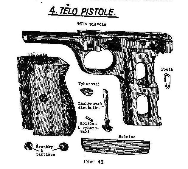 Pistol CZ-24 explosion drawing